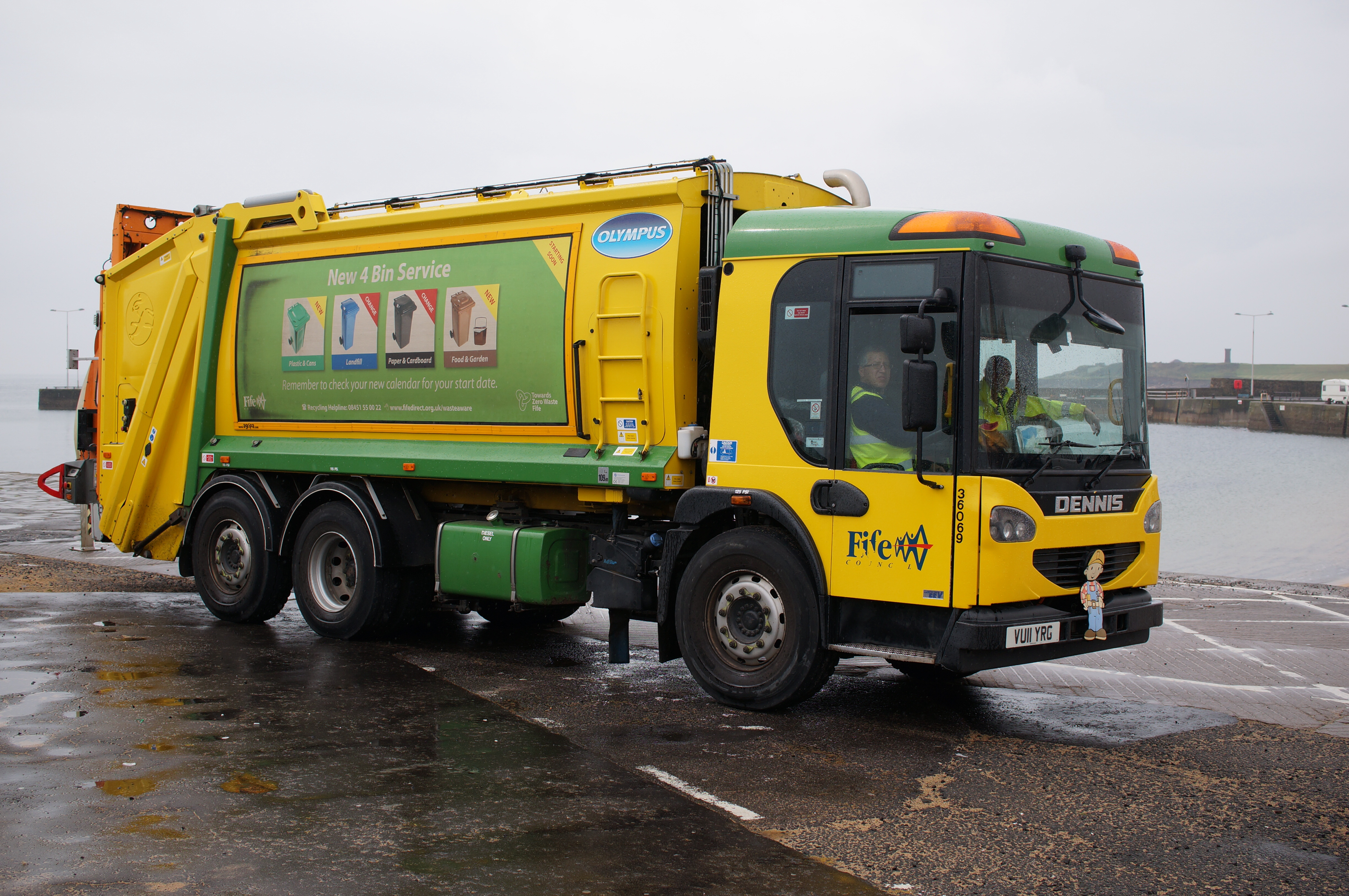 DENNIS Garbage truck, Anstruther(DVLA) first registered July 2011, 7146 cc